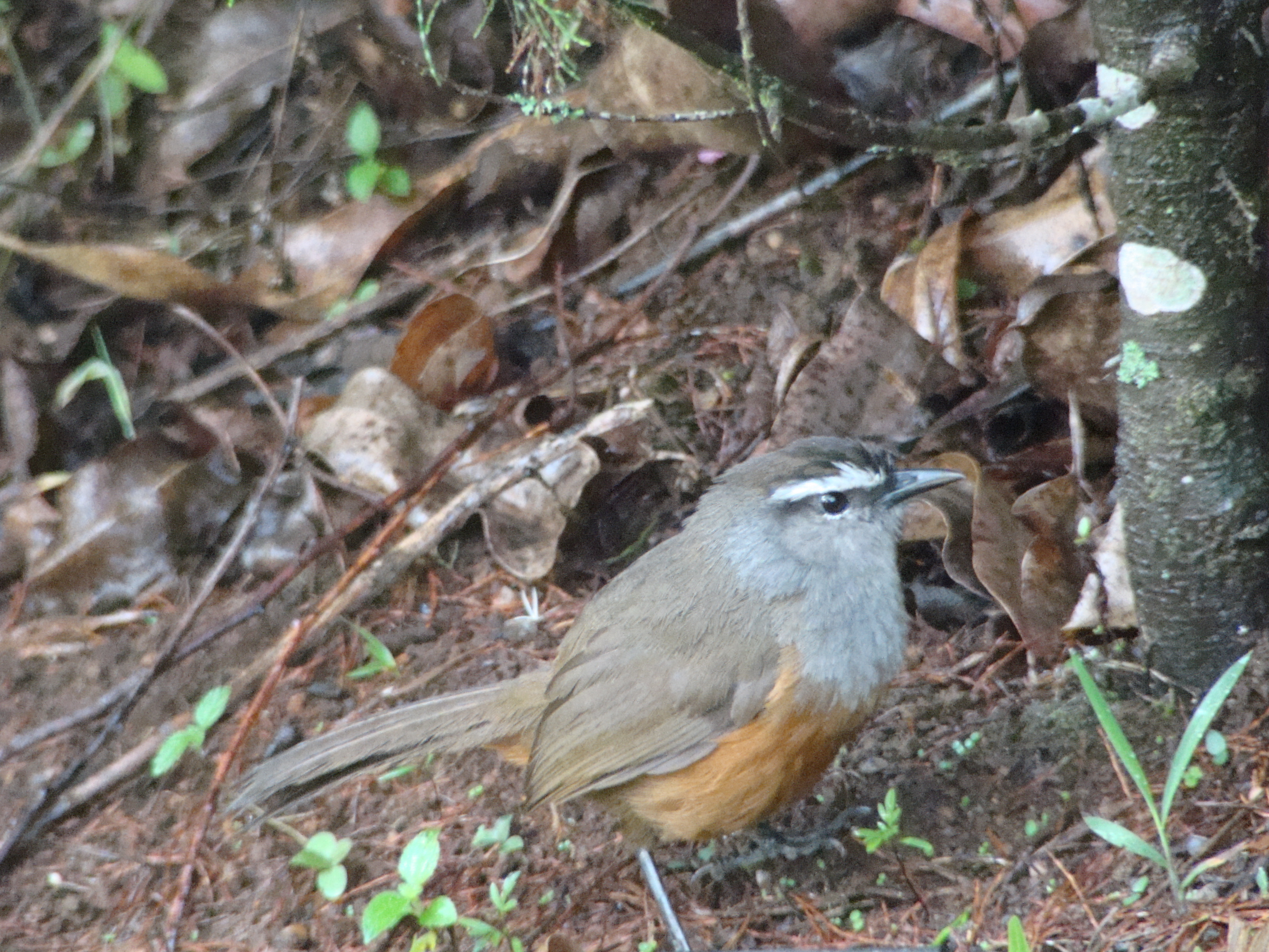 Grey-breasted Laughingthrush (Garrulax fairbanki or Garrulax jerdoni fairbanki (from Munnar))